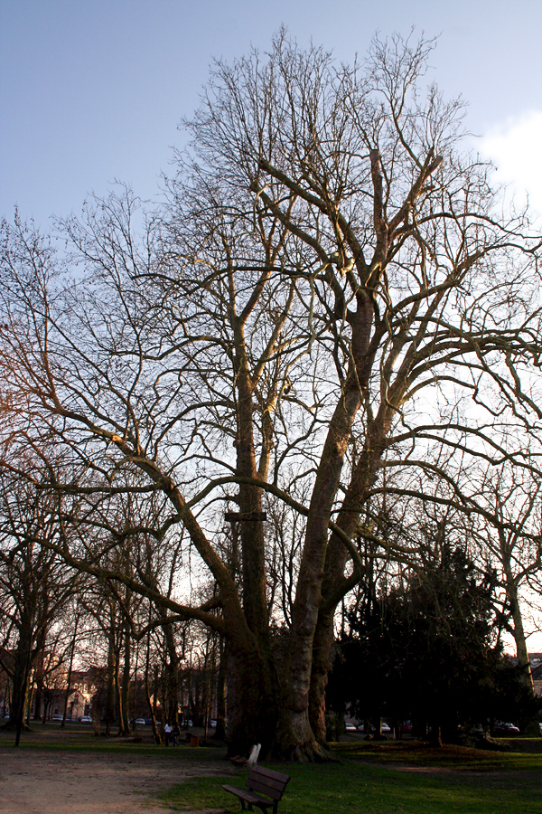 Les trois frères (the three brothers), a set of three huge trees, L'Isle-Adam, Parc Manchez